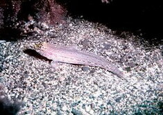 Yellow headed goby (Gobius xanthocephalus).